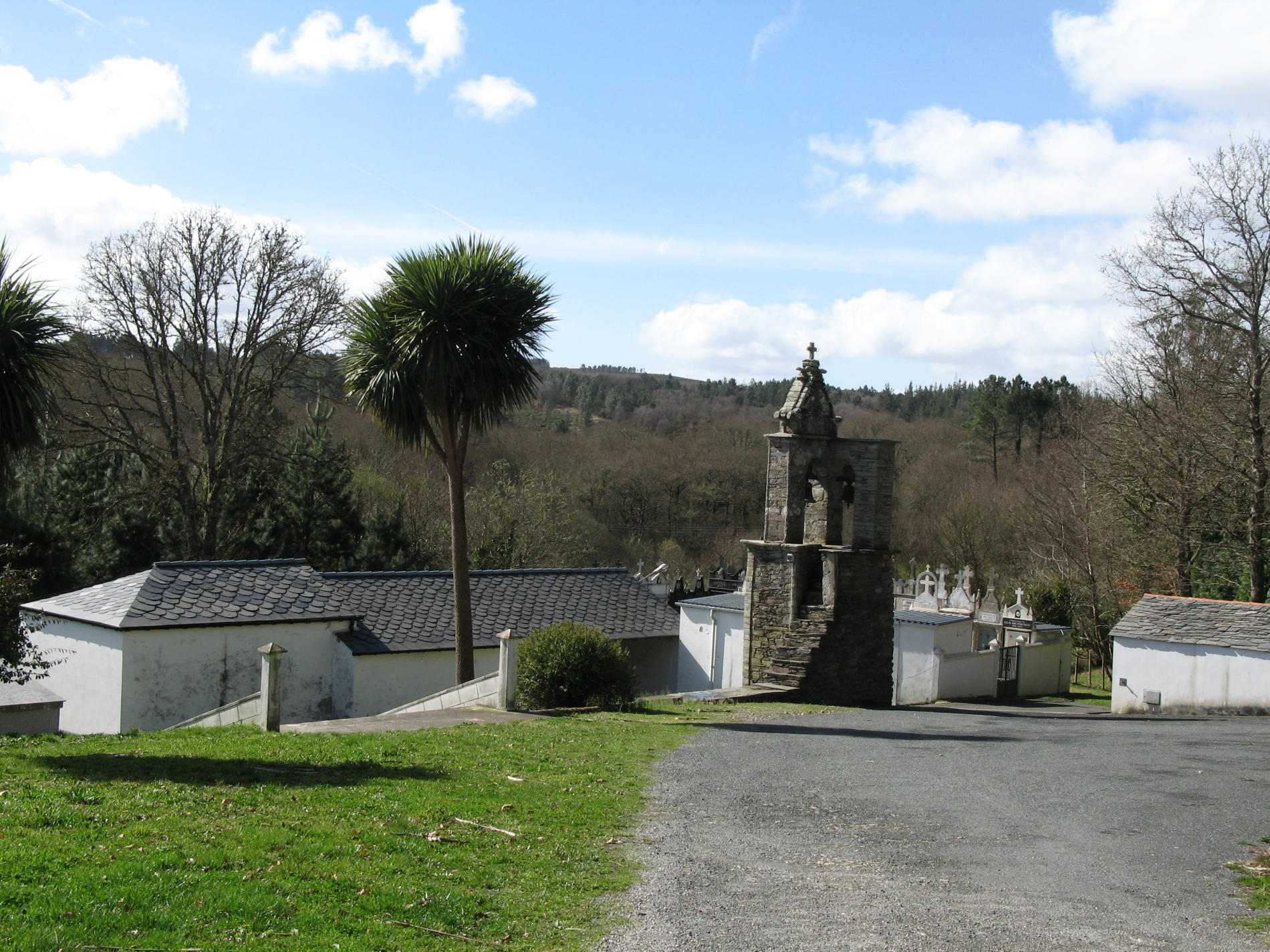 Saint Mary Church in Aparral, As Pontes de García Rodríguez.